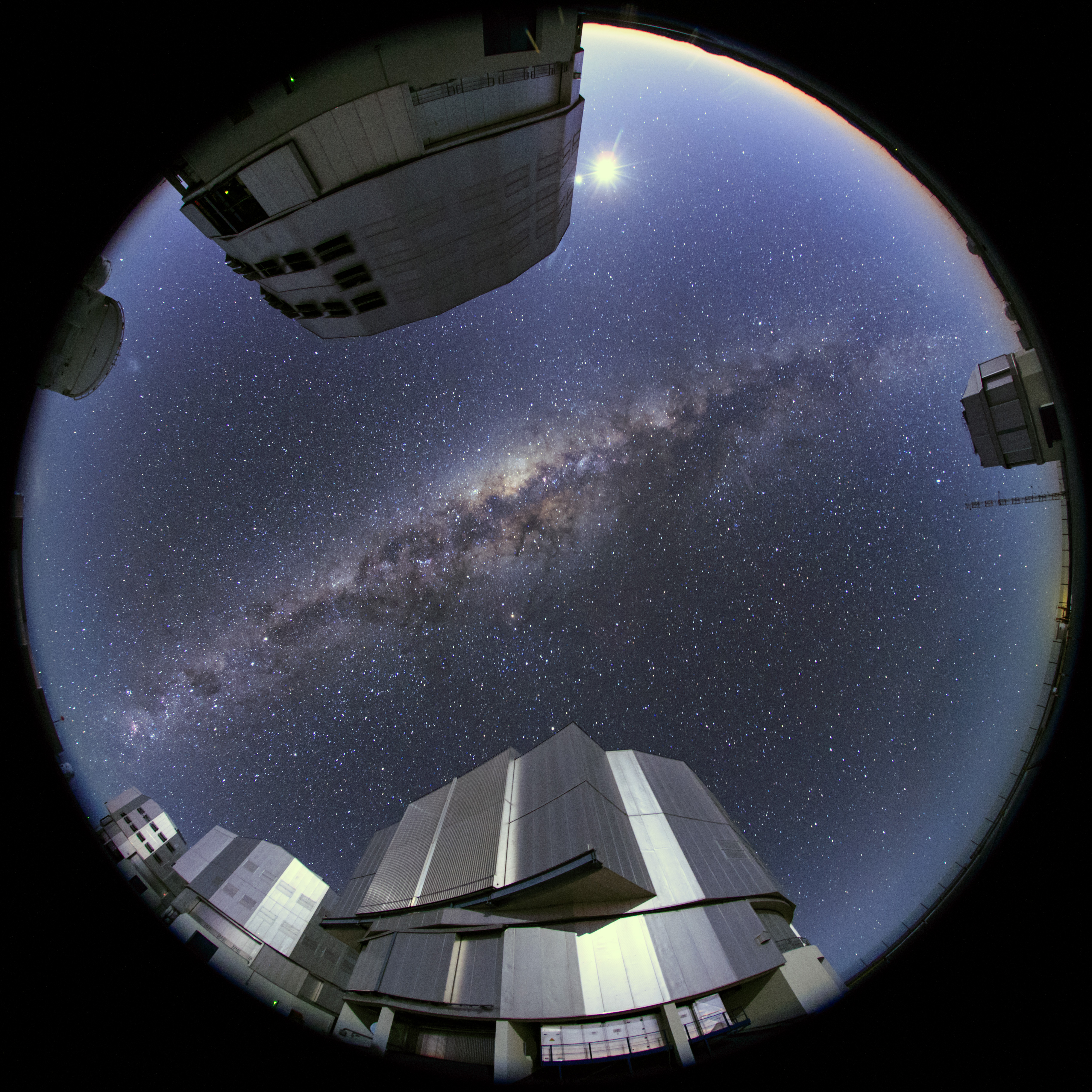 This photo, taken at ESO's Paranal Observatory, is the first photograph from the ESO Ultra HD Expedition — a revolutionary journey currently being undertaken by four world-renowned videographers and ESO Photo Ambassadors. The image shows The four Unit Telescopes — Antu, Kueyen, Melipal and Yepun — one of the Auxiliary Telescopes of the Very Large Telescope (VLT) and the VLT Survey Telescope (VST).